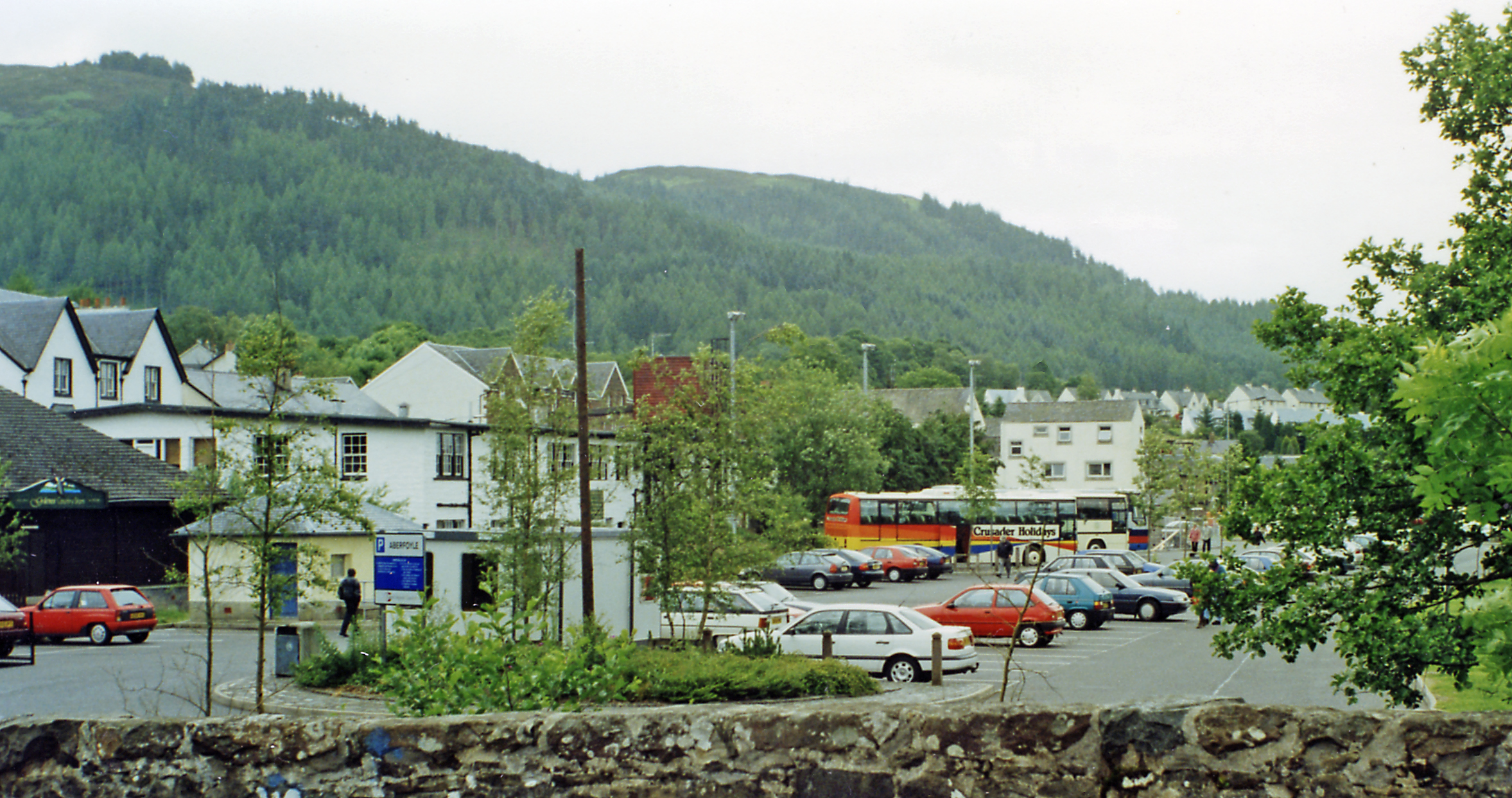 Site of Aberfoyle station. View eastward, towards Buchlyvie and Glasgow: ex-NBR terminus of a prosperous line which used to run via Buchlyvie and Lenzie Junction from Glasgow, but closed to passengers on 1/10/51, to goods on 5/10/59. Nearly 40 years later there is nothing but a car-park here.